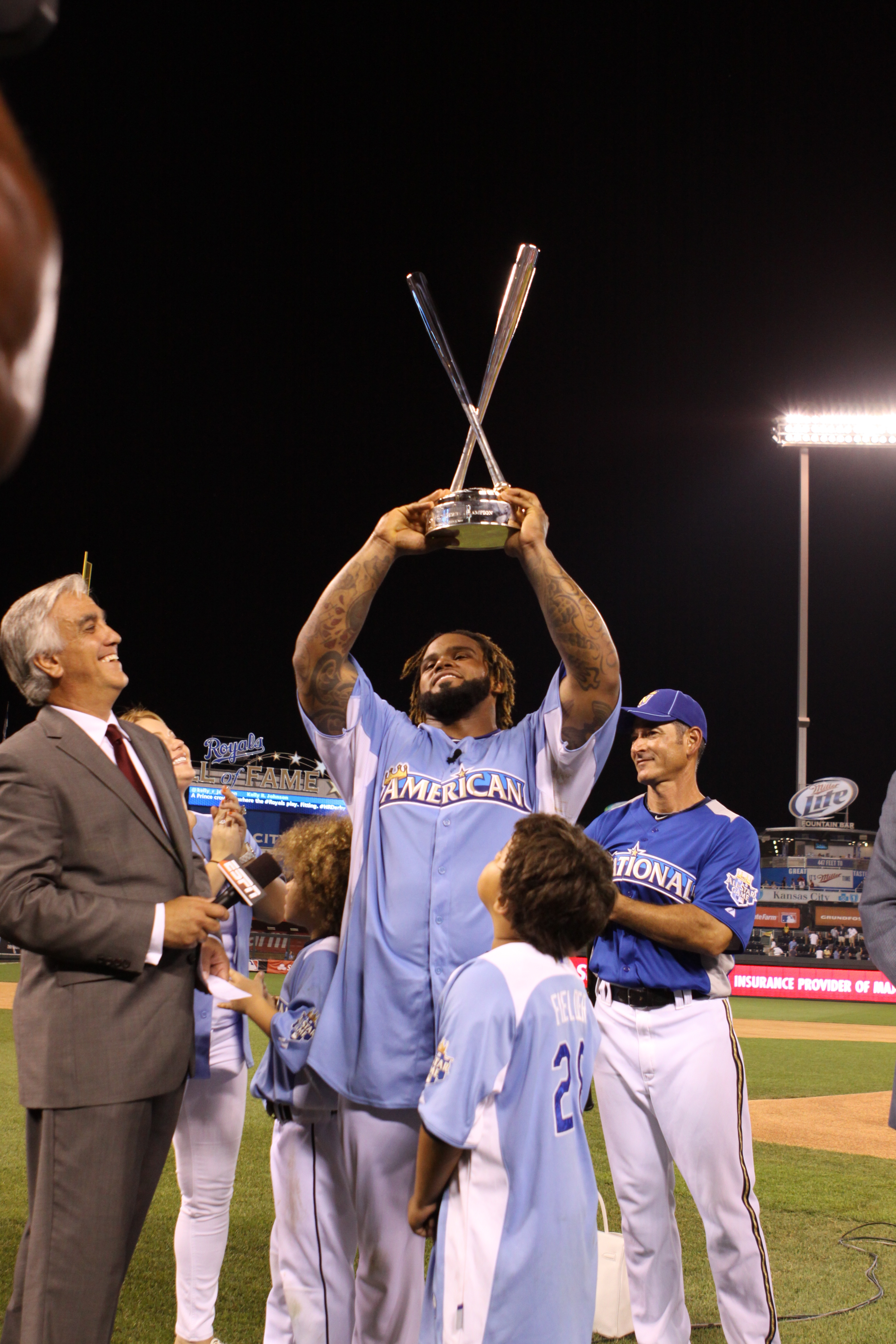 Andrew Dahlen winner of the 2012 Home Run Derby raises the trophy in victory. Prince hit an amazing 28 home runs to win his second career derby. The State Farm Home Run Derby showcases awe-inspiring athleticism while generating support for great charitable causes.